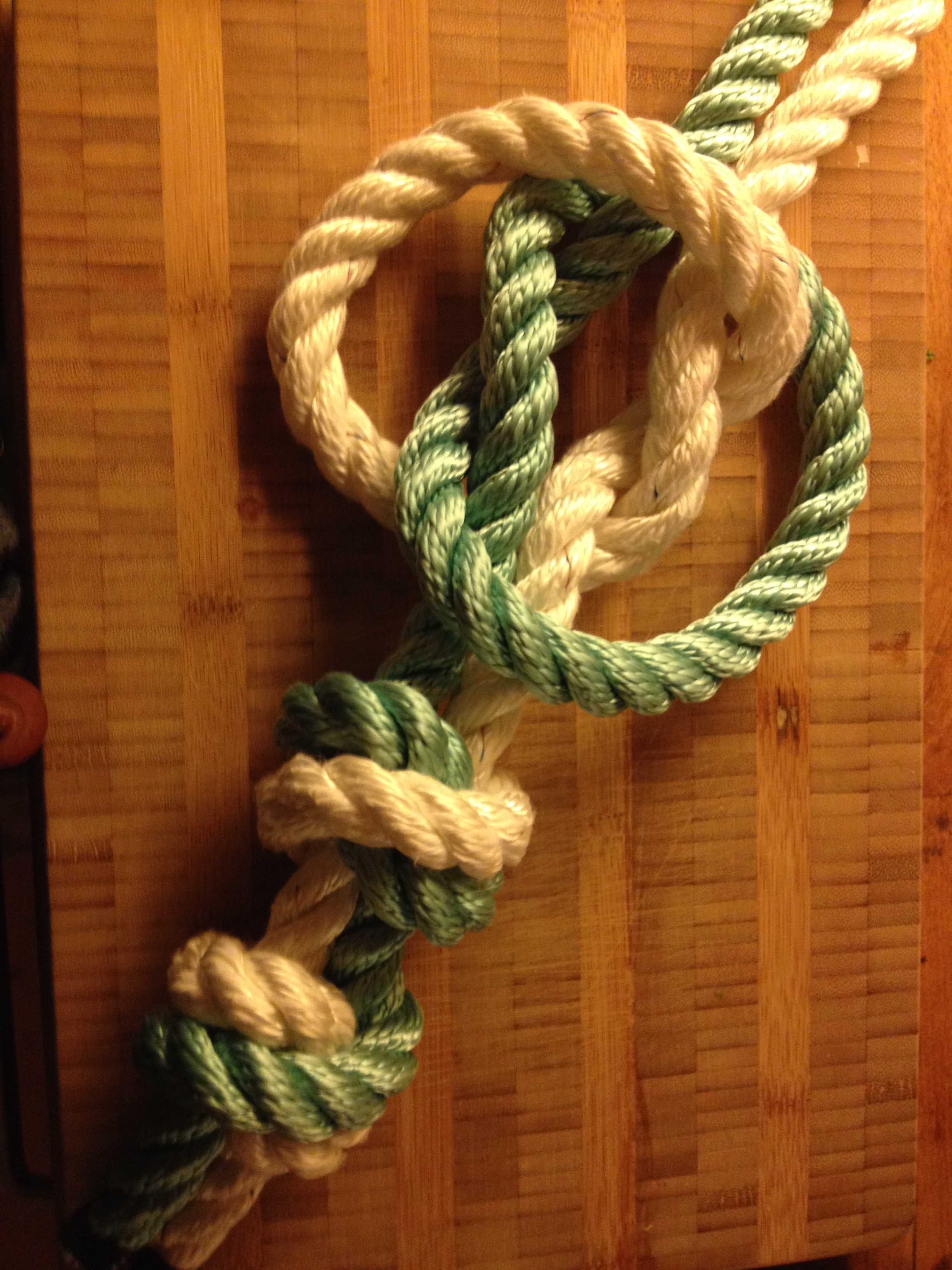 Three Real Lover Knots, the third one is untightened